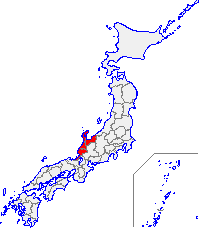 Map of the Hokuriku region